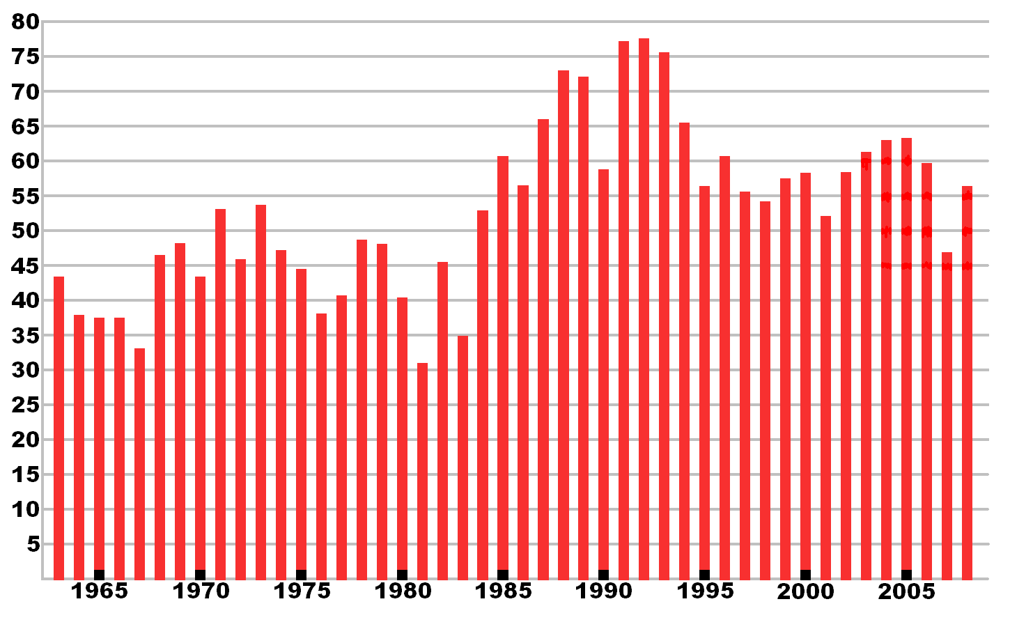 A.C. Milan spectators attendance at San Siro / Frekwencja kibiców Milanu na San Siro